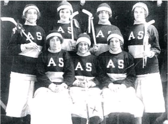 The «invincibles» Cornwall Victorias, wearing their All Star jerseys for a U.S. barnstorming tour, were led by Albertine (Miracle Maid) Lapensée, front row centre, who guided the Vics to an undefeated 1917-18 season.